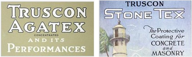 Derivitive from File:Truscon Stone Tex booklet 1926.jpg File:Truscon Agate.jpg